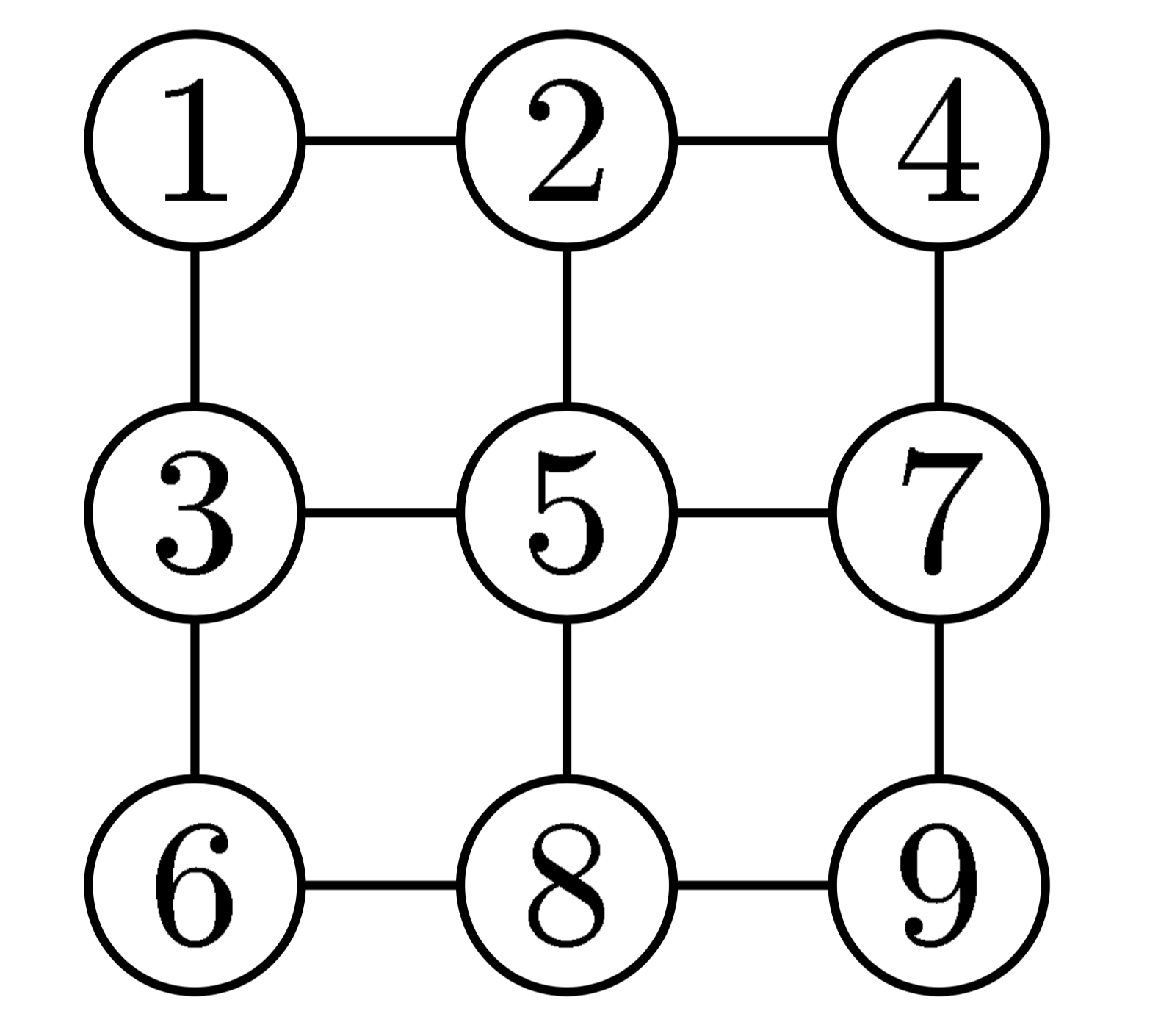 A three by three grid